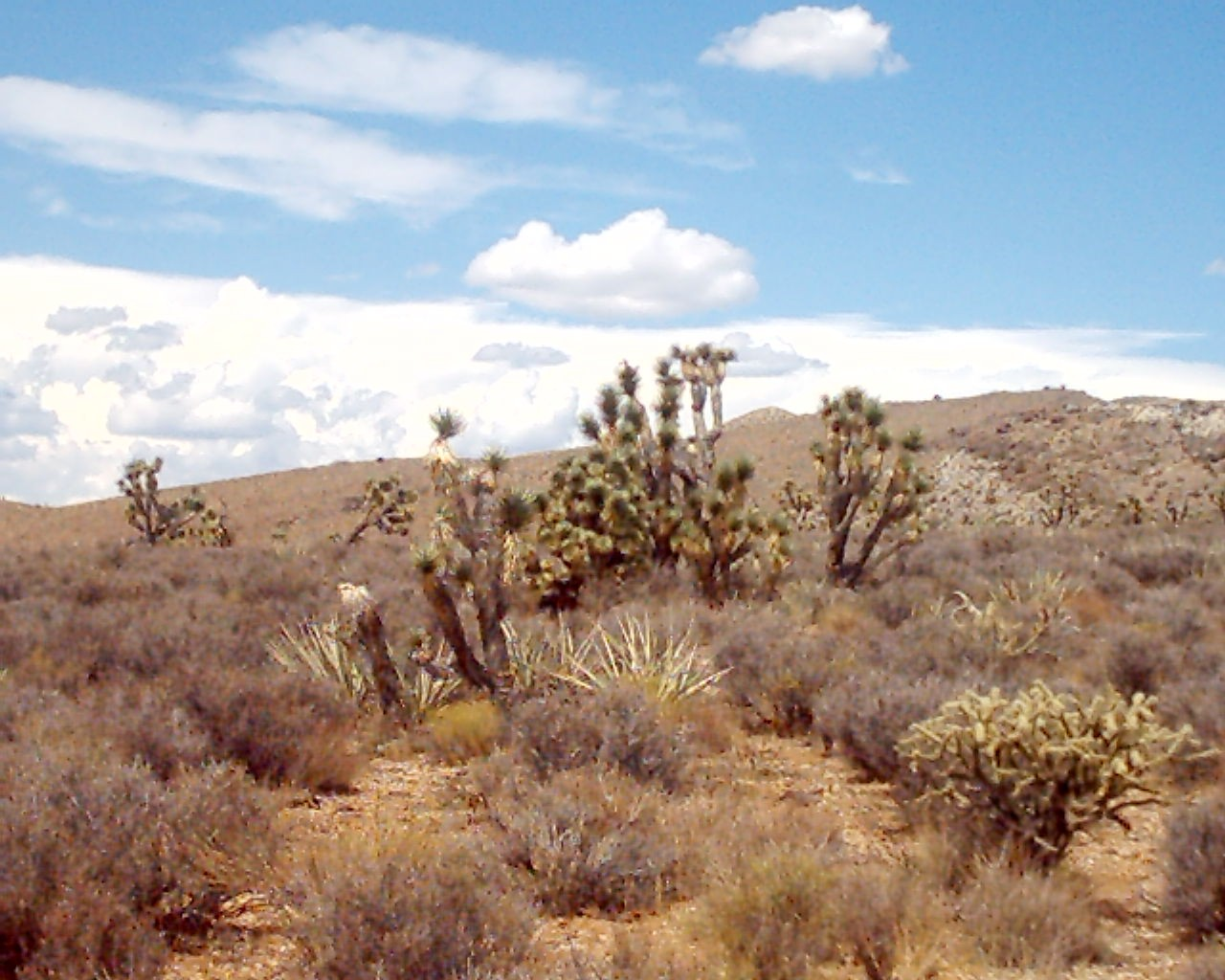 Joshua Tree in Mojave Desert, southwestern Utah by David Jolley.